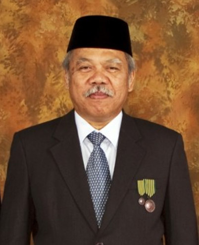 Basuki Hadimuljono, 1st Minister of Public Works and Housing in Joko Widodo's Working Cabinet